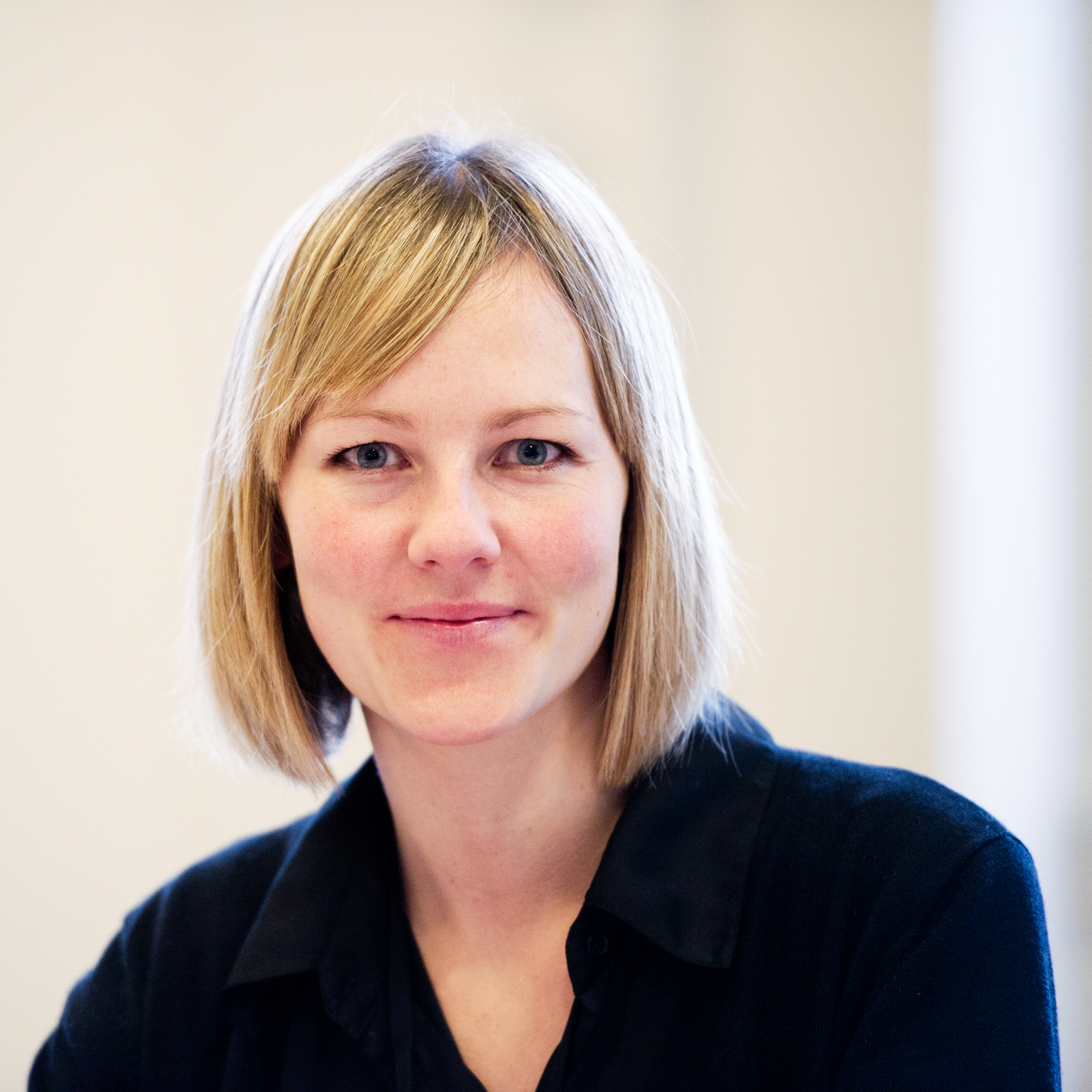 Ida Auken (SF) Environment Denmark. Nordic Council Session in Copenhagen 2011